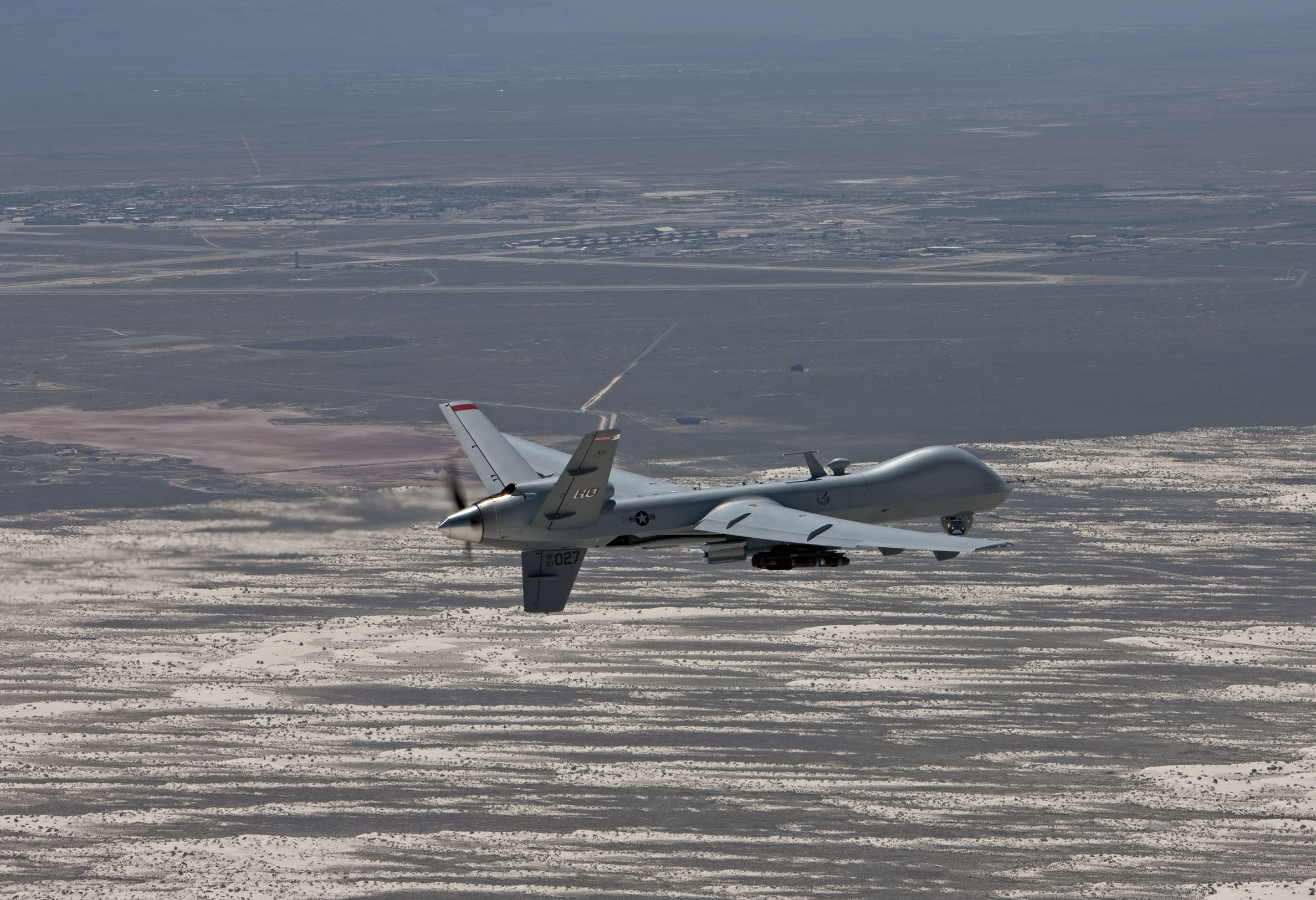 MQ-9 of the 9th Attack Squadron, 49th Fighter Wing with full weapons loadout over Holloman AFB, NM